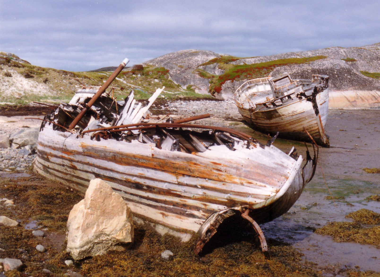 Wrecked fishing boats at Grasbakken in Nesseby, Finnmark, North Norway